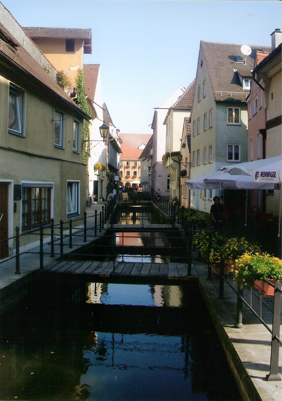 Memmingen, the "Stadtbach" (Town River). It joins the river Iller about 20 kilometers north of Memmingen.